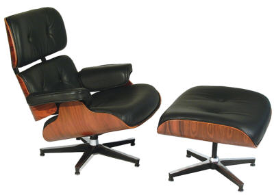 Lounge Chair and Ottoman by Charles Eames (1955) Image source and courtesy of Used with permission. This file is in the public domain, because the maker of the picture (and furniture) released it, see discussion page. In case this is not legally possible: The right to use this work is granted to anyone for any purpose, without any conditions, unless such conditions are required by law. Please verify that the reason given above complies with Commons' licensing policy. Category:Chairs